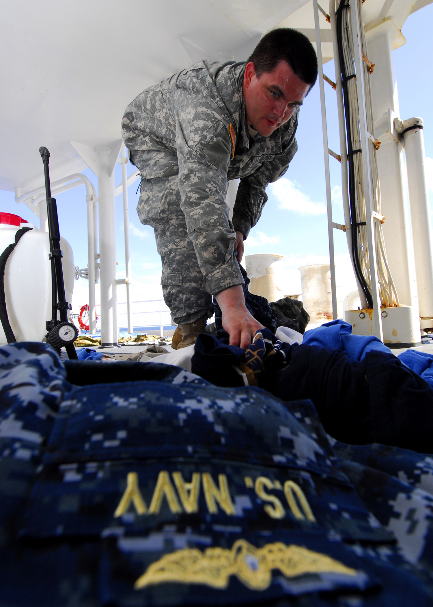 JAVA SEA (July 8, 2010) Army Specialist James Wood sprays service working uniforms and clothing with permethrin, a chemical used to repel insects, on the fantail of the Military Sealift Command hospital ship USNS Mercy (T-AH 19) while transiting the Java Sea during Pacific Partnership 2010. Pacific Partnership the fifth in a series of annual U.S. Pacific Fleet humanitarian and civic assistance endeavors to strengthen regional partnerships. (U.S. Navy photo by Mass Communication Specialist 2nd Class Eddie Harrison/Released)